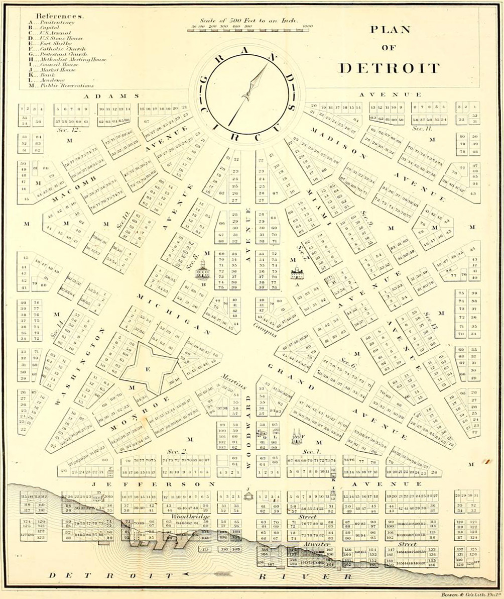 Detroit city layout plan circa 1807—following the 1805 fire that destroyed most of the city. The map showes Grand Circus Park (top), and some of the present-day Grand Circus Park Historic District.